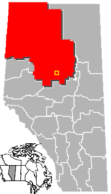 Location of Slave_Lake, Census Division No. 17, Albera